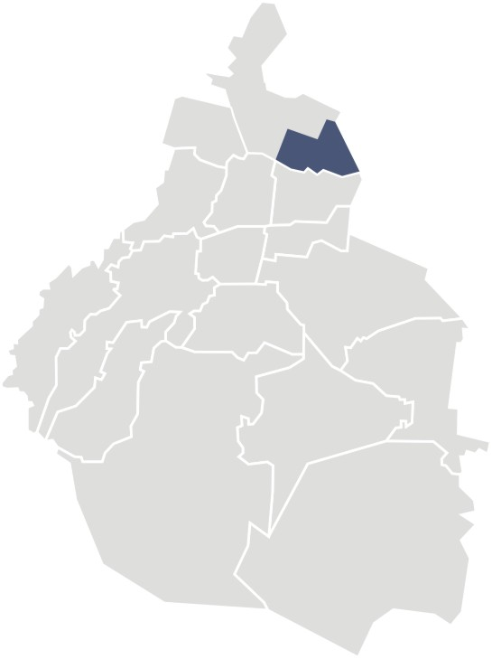 Map of the Seventh Federal Electoral District of the Federal District, México.